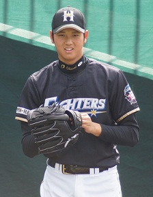 fighters_ohtani_11